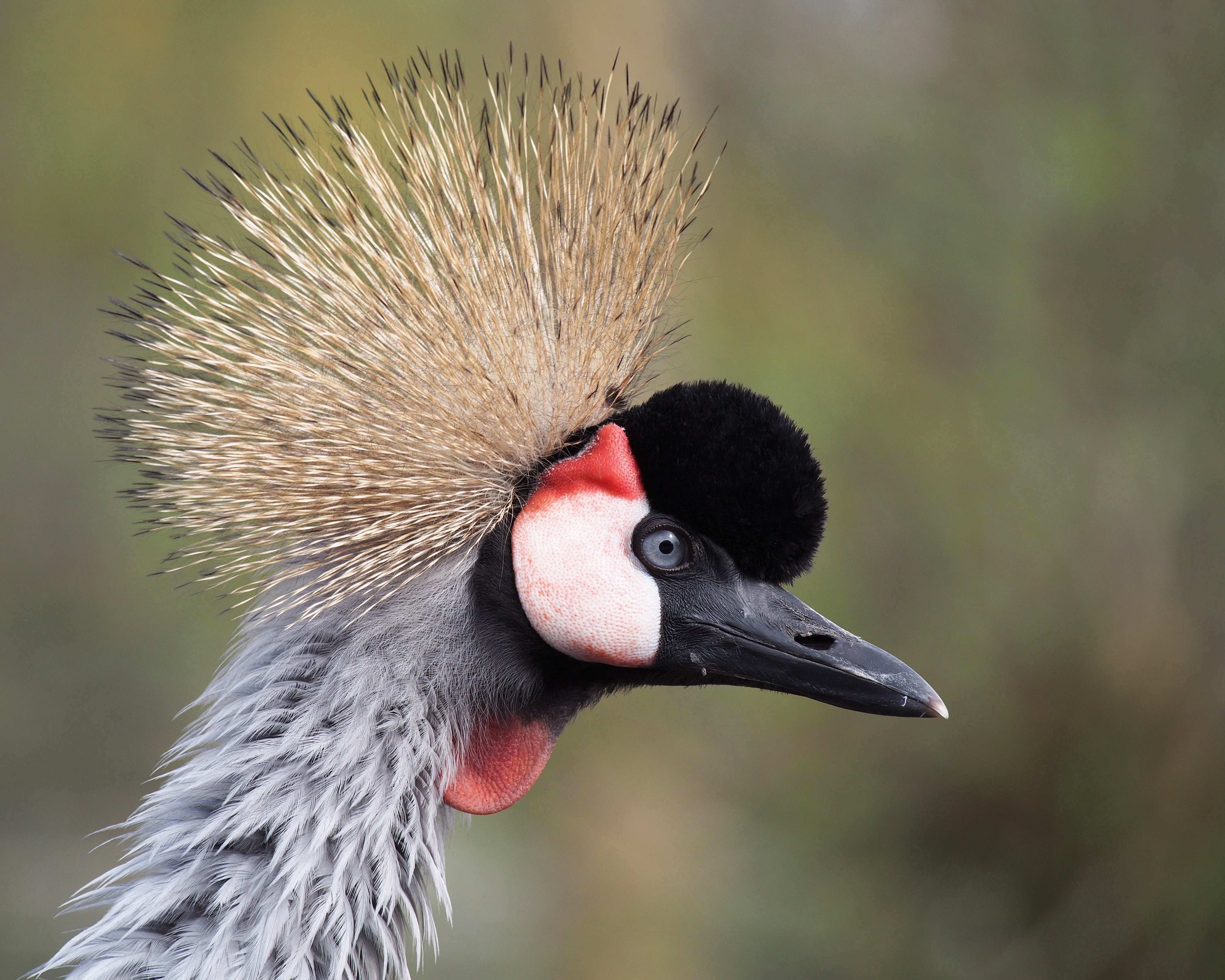 Grey crowned crane, Balearica regulorum, portrait. Martin Mere, UK